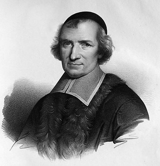 Antoine Arnauld (1612 – 1694)